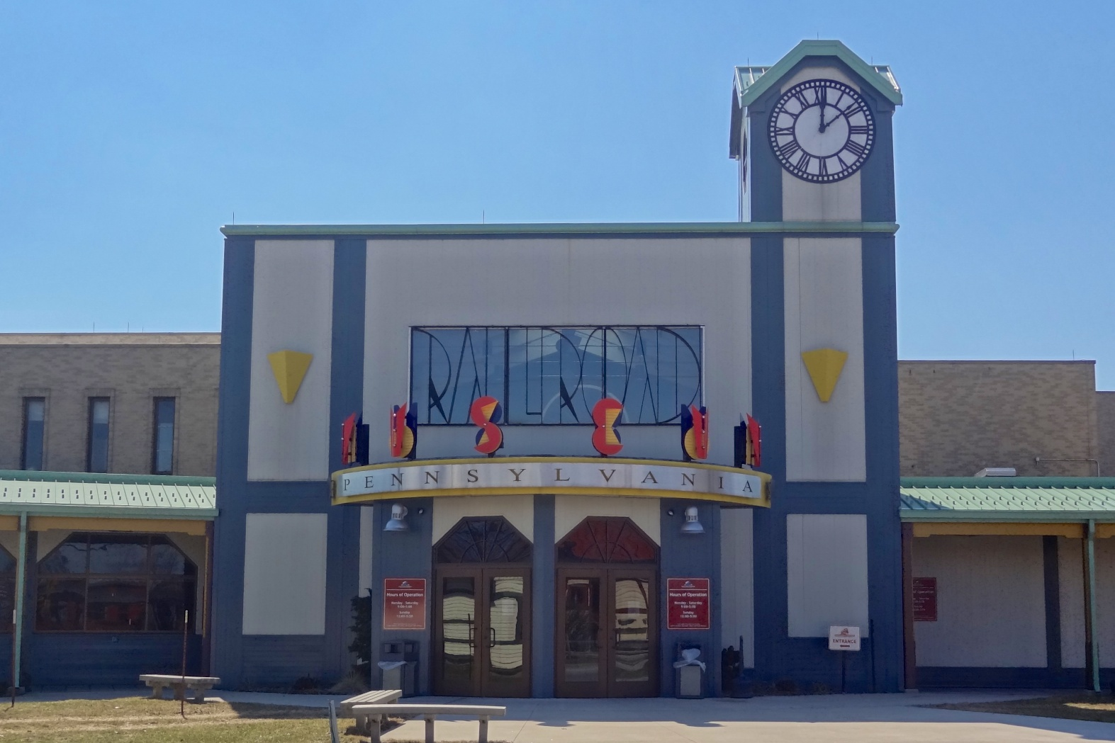 Front view of the Railroad Museum of Pennsylvania